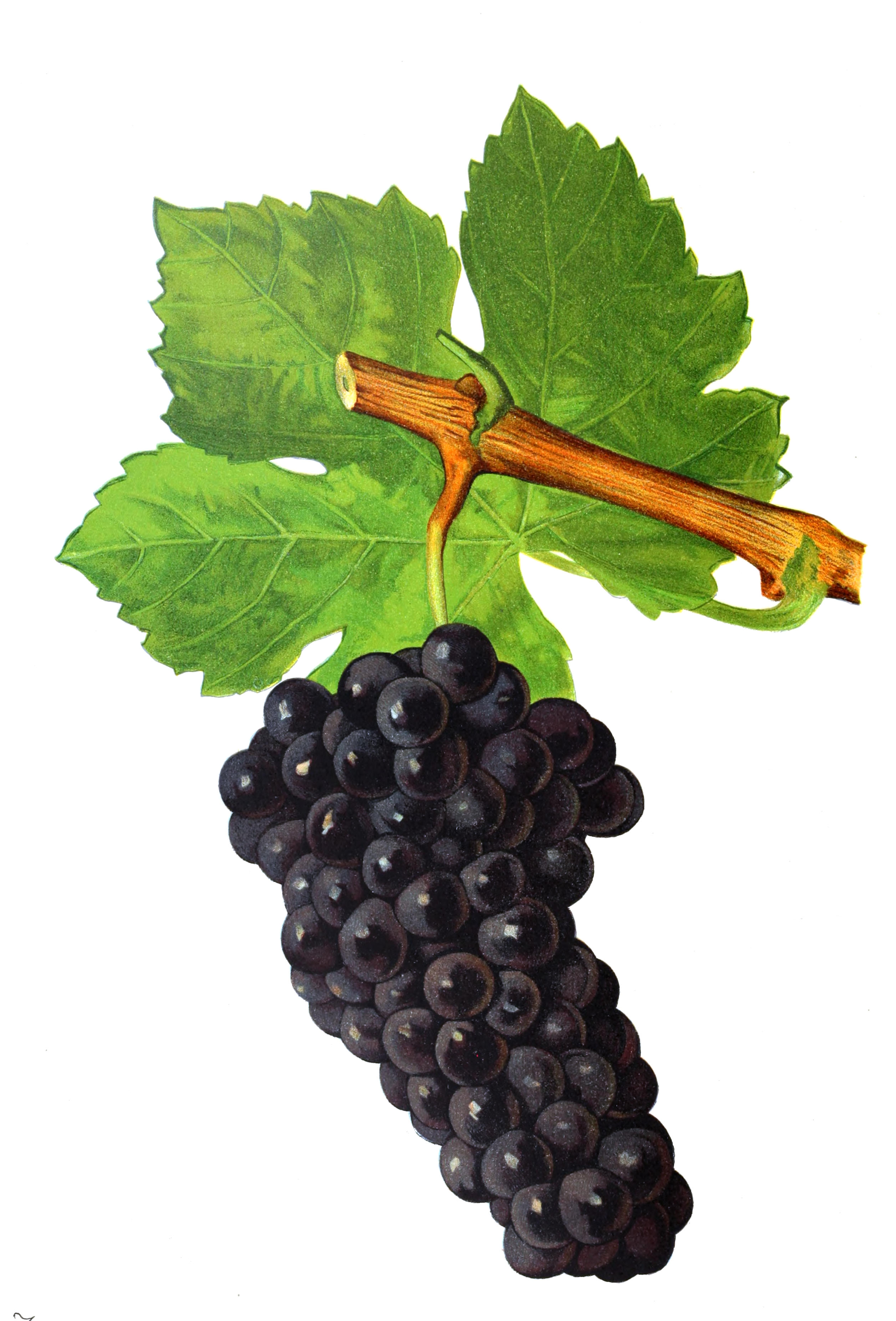 Durif Ampélographie; Public domain colour plate from Viala et Vermorel Ampélographie. Traité général de viticulture, Tome II (1901).